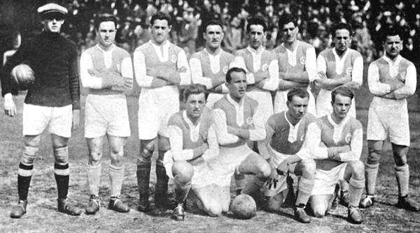 Hakoah Vienna in New York 1926,Hakoah Wien im Stadion Polo Ground, New York, Mai 1926 Stehend: Fabian, Eisenhoffer, Schwarz, Neufeld, Hess, Drucker, Häusler, Grünwald; davor: Wegner, Pollak, Wortmann, Gold.